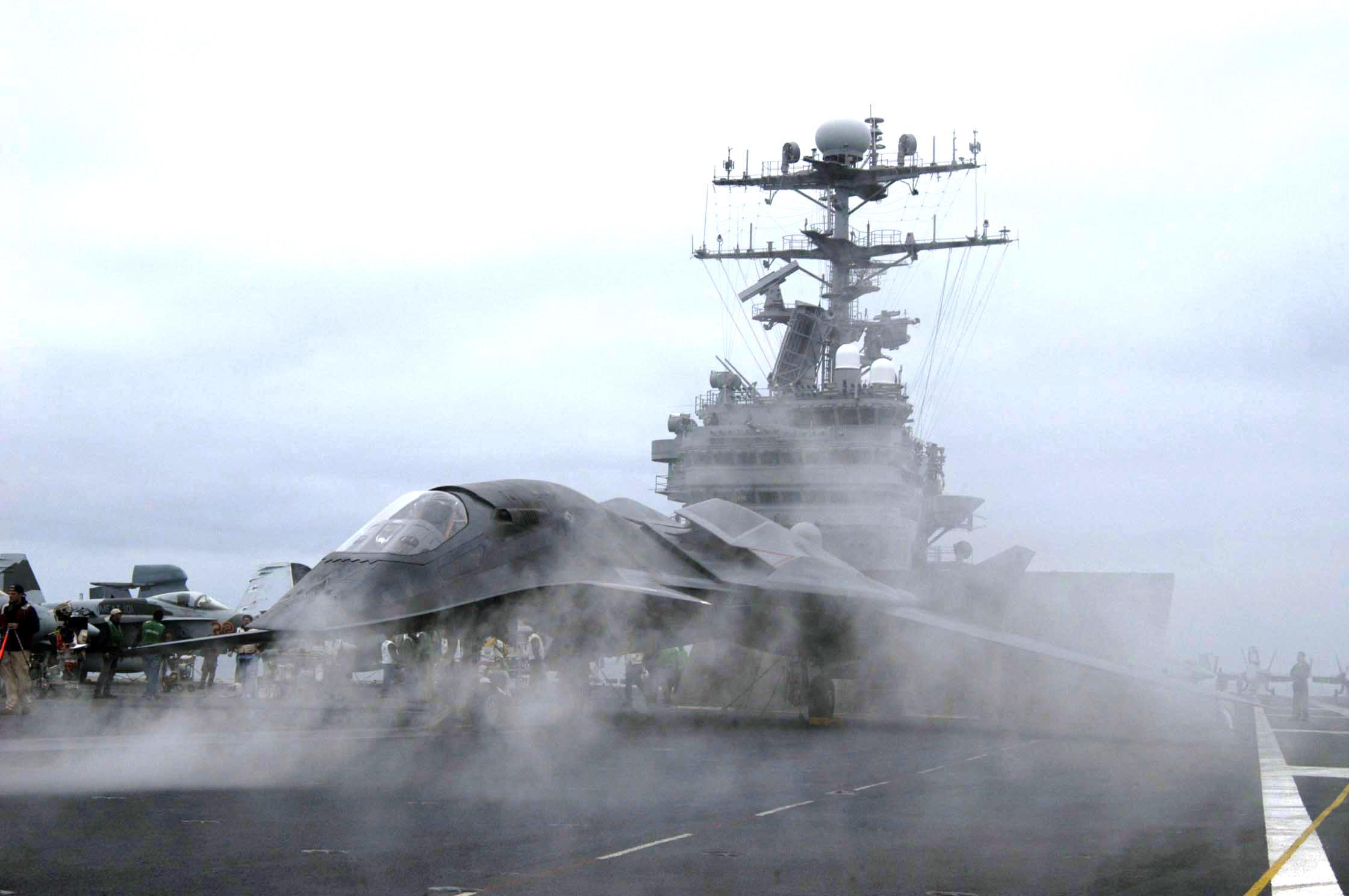 F/A-37 Talon during the shooting the film Stealth (2005). Caption provided by the U.S. Navy: 040618-N-6817C-098 Pacific Ocean (June 18, 2004) – A fictitious jet aircraft for the upcoming Columbia Tri-Star motion picture "Stealth," sits on one of four steam-powered catapults on the flight deck aboard the Nimitz-class aircraft carrier USS Abraham Lincoln (CVN 72). "Stealth," starring Jessica Biel, Josh Lucas and Jamie Foxx, is due to be released next summer. Lincoln is conducting local operations in preparation for an upcoming scheduled deployment after 10 months of dry docked Planned Incremental Availability (PIA). U.S. Navy photo by Photographer’s Mate 3rd Class Tyler J. Clements (RELEASED)